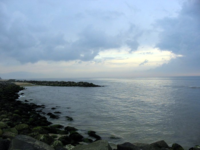 North Sea, Lønstrup, Denmark // groyne